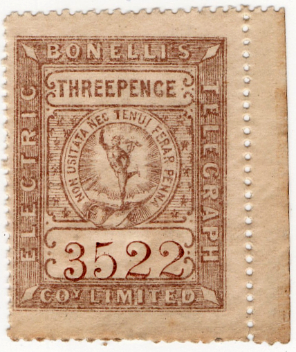 c. 1862 Bonelli's Electric Telegraph Co. Ltd. 3d stamp